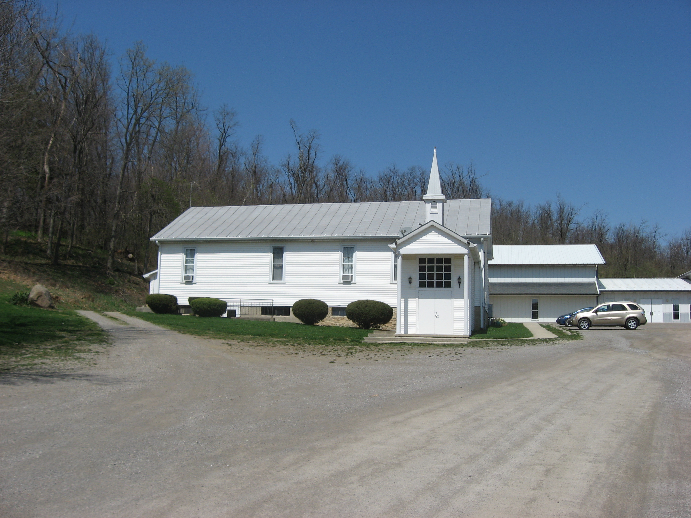 Front of Goshen Friends Church, located at 5527 County Road 153 east of Zanesfield in Jefferson Township, Logan County, Ohio, United States. Church website.